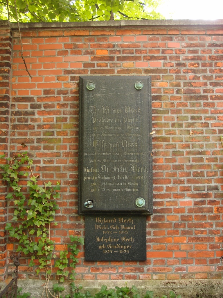 Grave of physicist Wilhelm von Beetz (1822-1886) on the Alter Nördlicher Friedhof in Munich